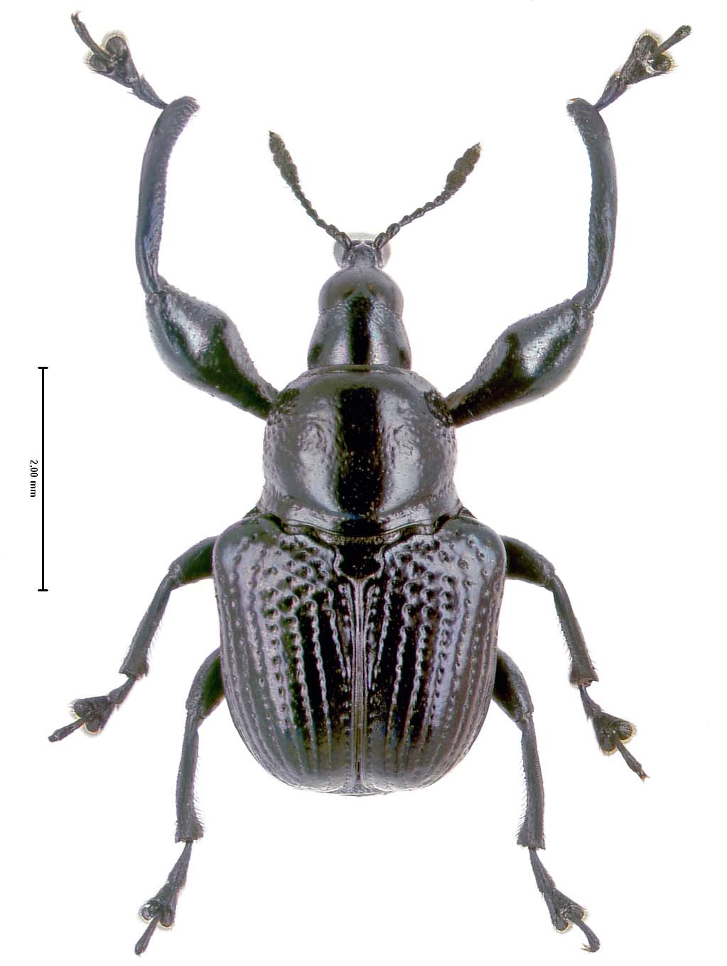 Euops cacuminis Riedel, holotype, male, habitus, dorsal aspect